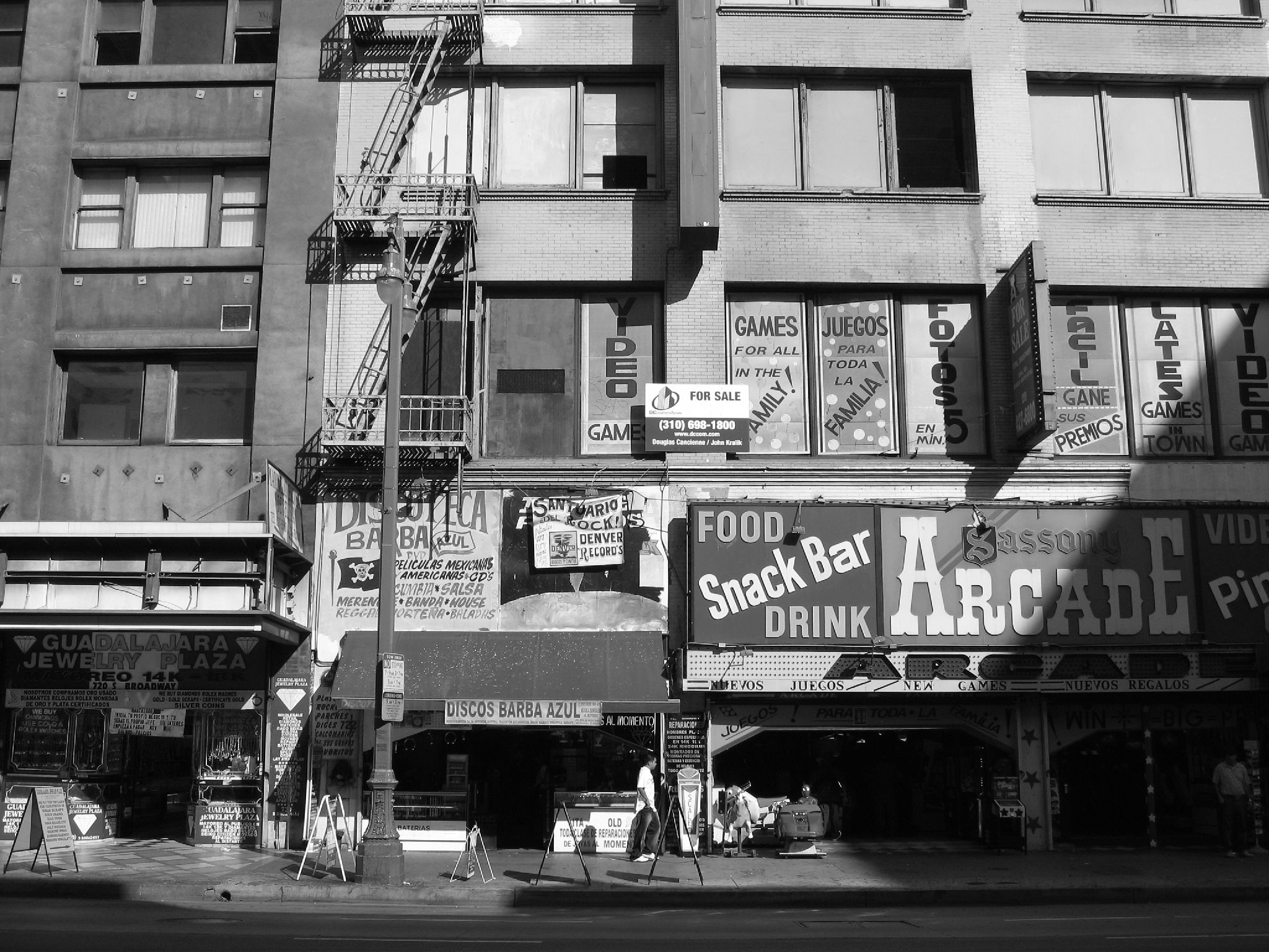 Broadway - Downtown Los Angeles, California. Made with my point and shoot Canon PowerShot SD500 at it's widest. Notice the slight bend in the horizontal lines caused by the small lens in this excellent camera. This area was the epicenter of L.A. culture during the 20's. Take a look at what this area of LA was like back in the 20s and 30s.